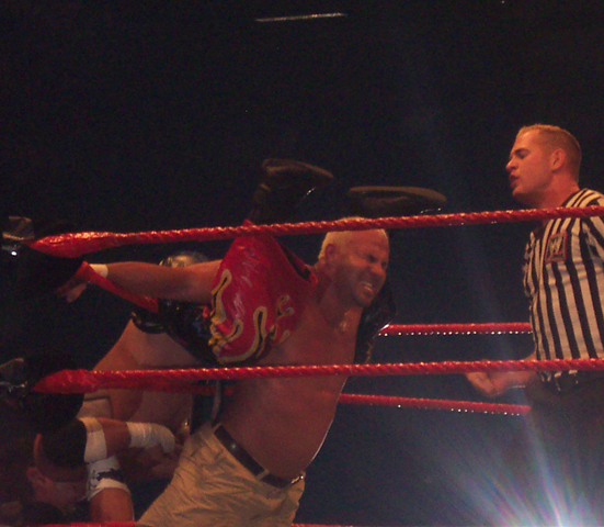 Tajiri and Kerwin White (in the tarantula) @ Adelaide, South Australia 'RAW' house show on the 28th of October '05